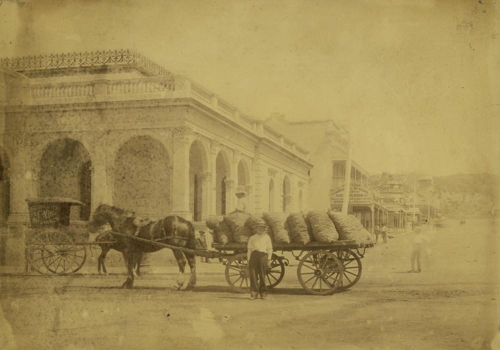 Union Bank building (which is now the Perc Tucker Regional Gallery) in Flinders Street, Townsville.